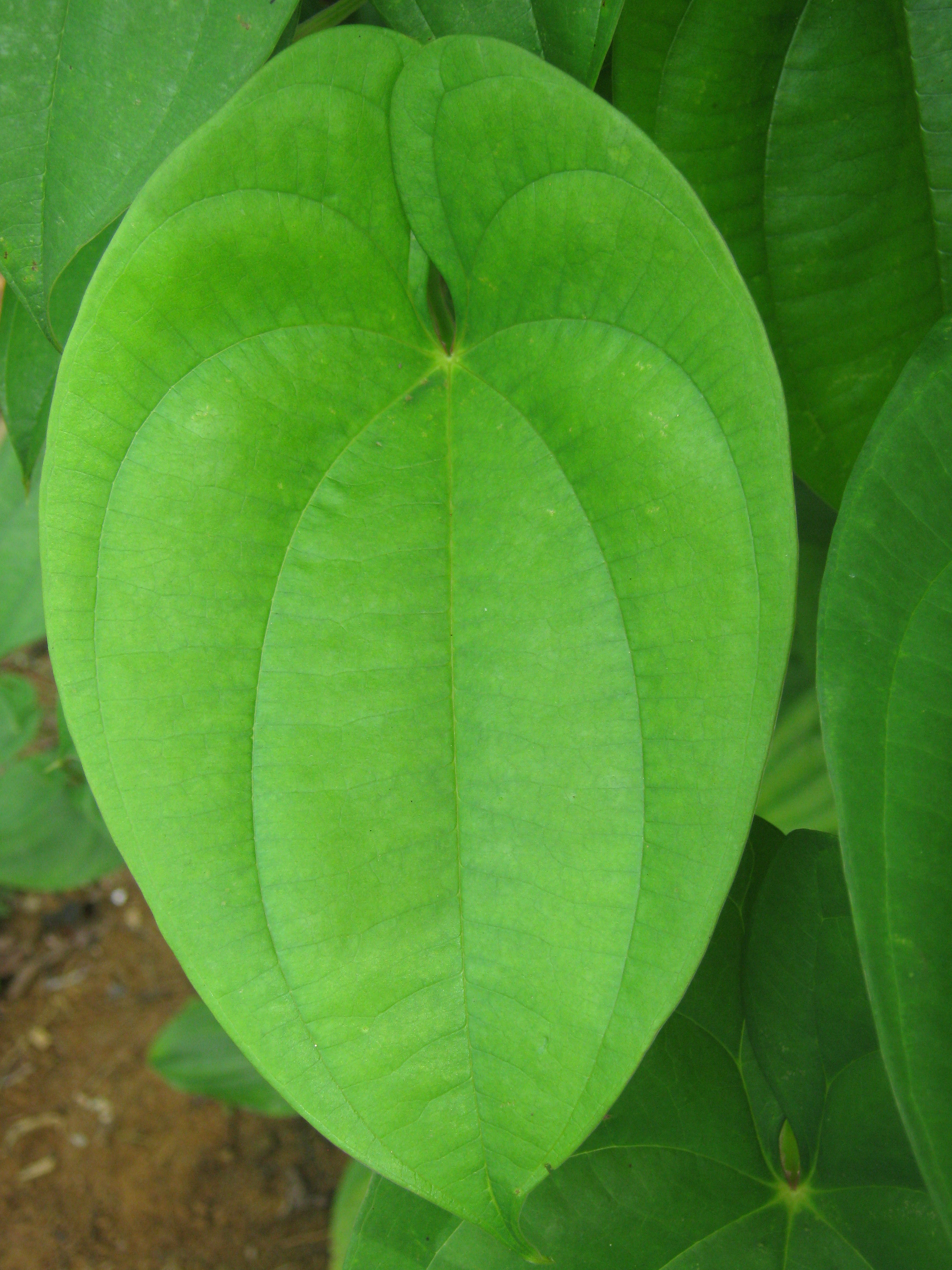 Leaf of Dioscorea plant